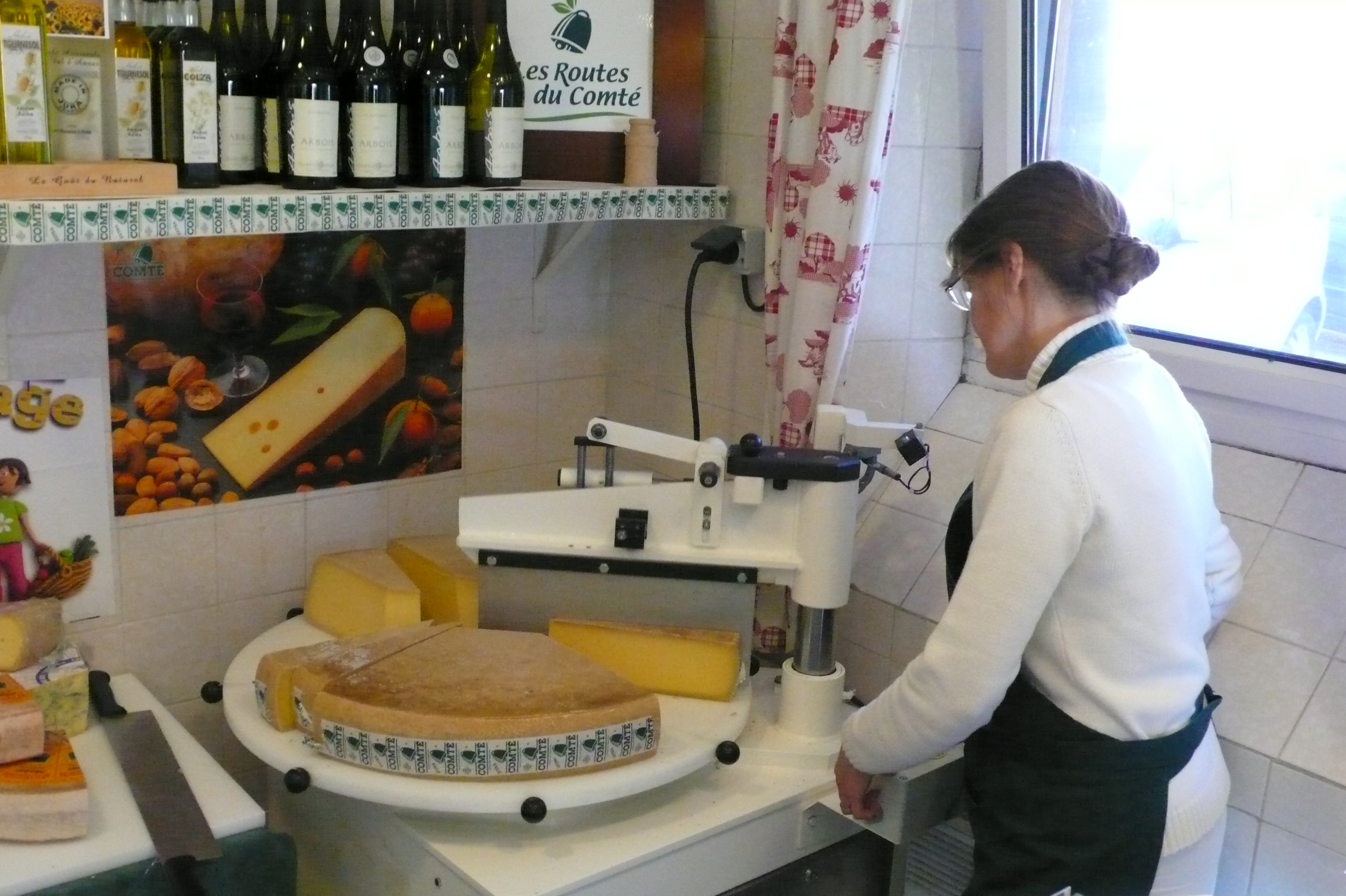 Cheese cutting machine, in the shop of the dairy of Fontain.